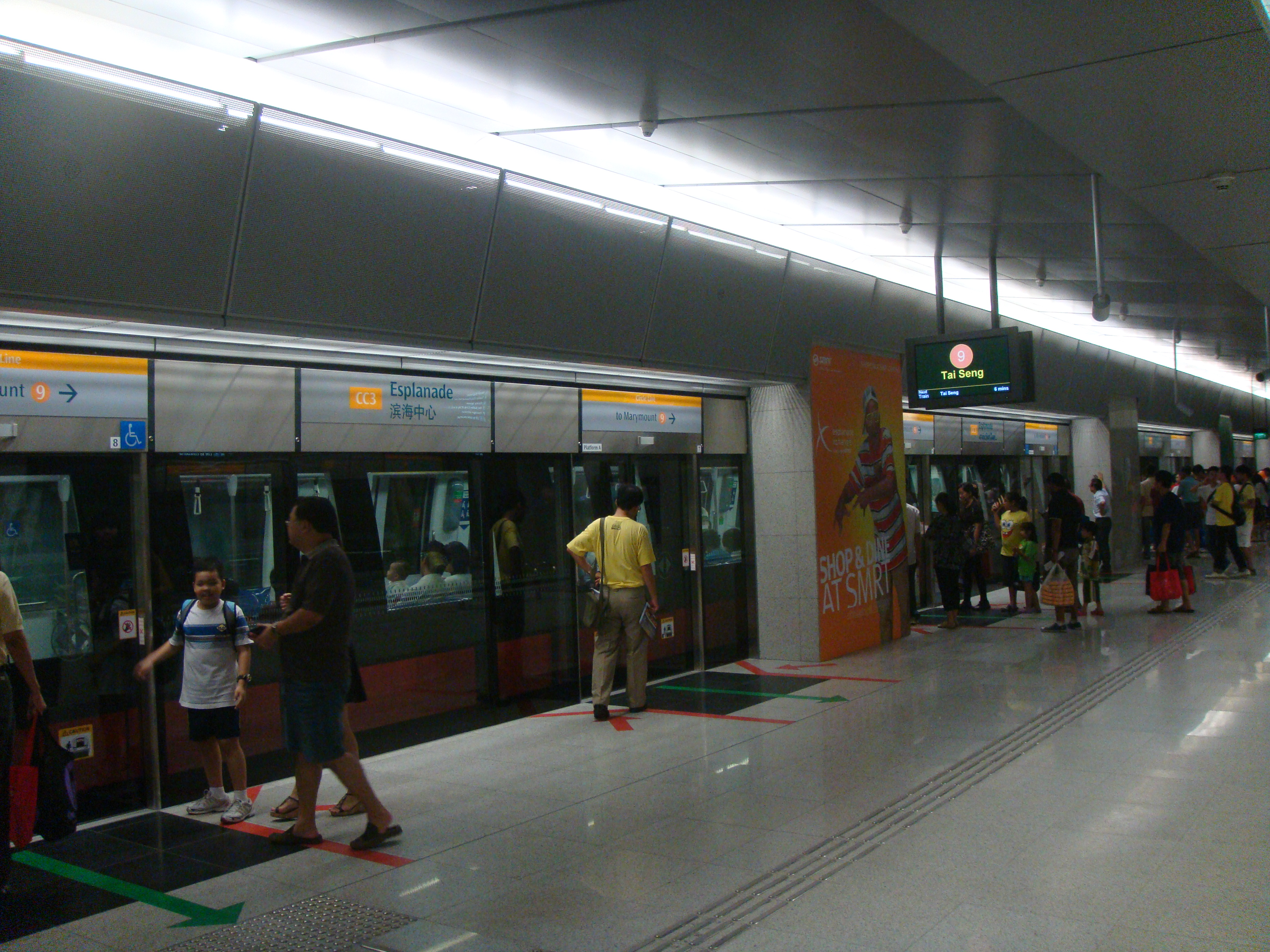 Circle Line platform of Esplanade MRT Station, taken on the LTA Circle Line Discovery II Open House.